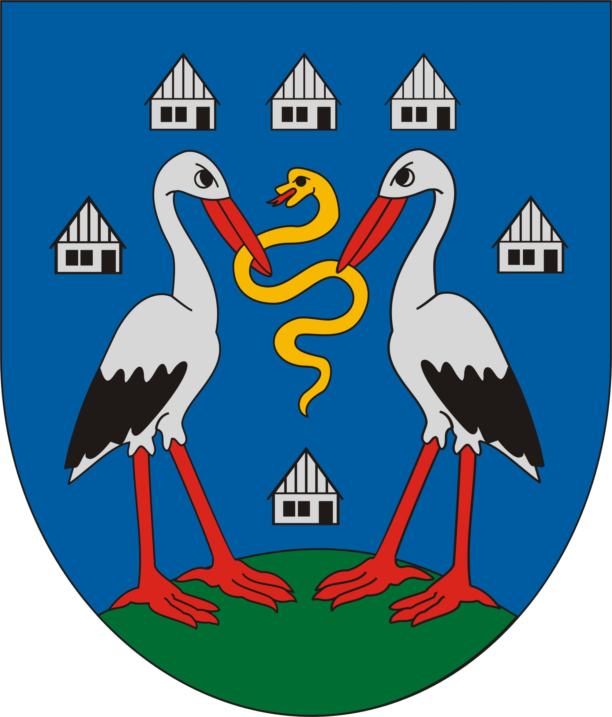 Coat of arms of Homokmégy, Hungary